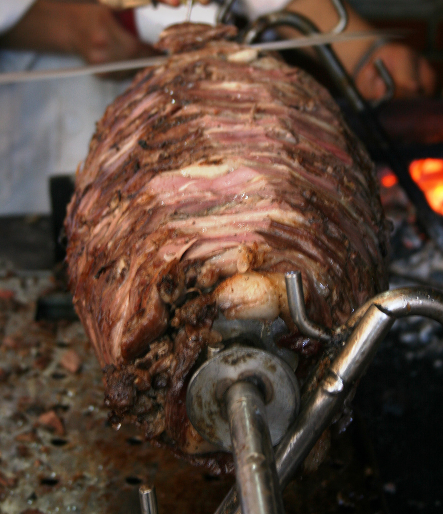 Picture of a Cağ Kebabı in Erzurum, Taken by Volkan